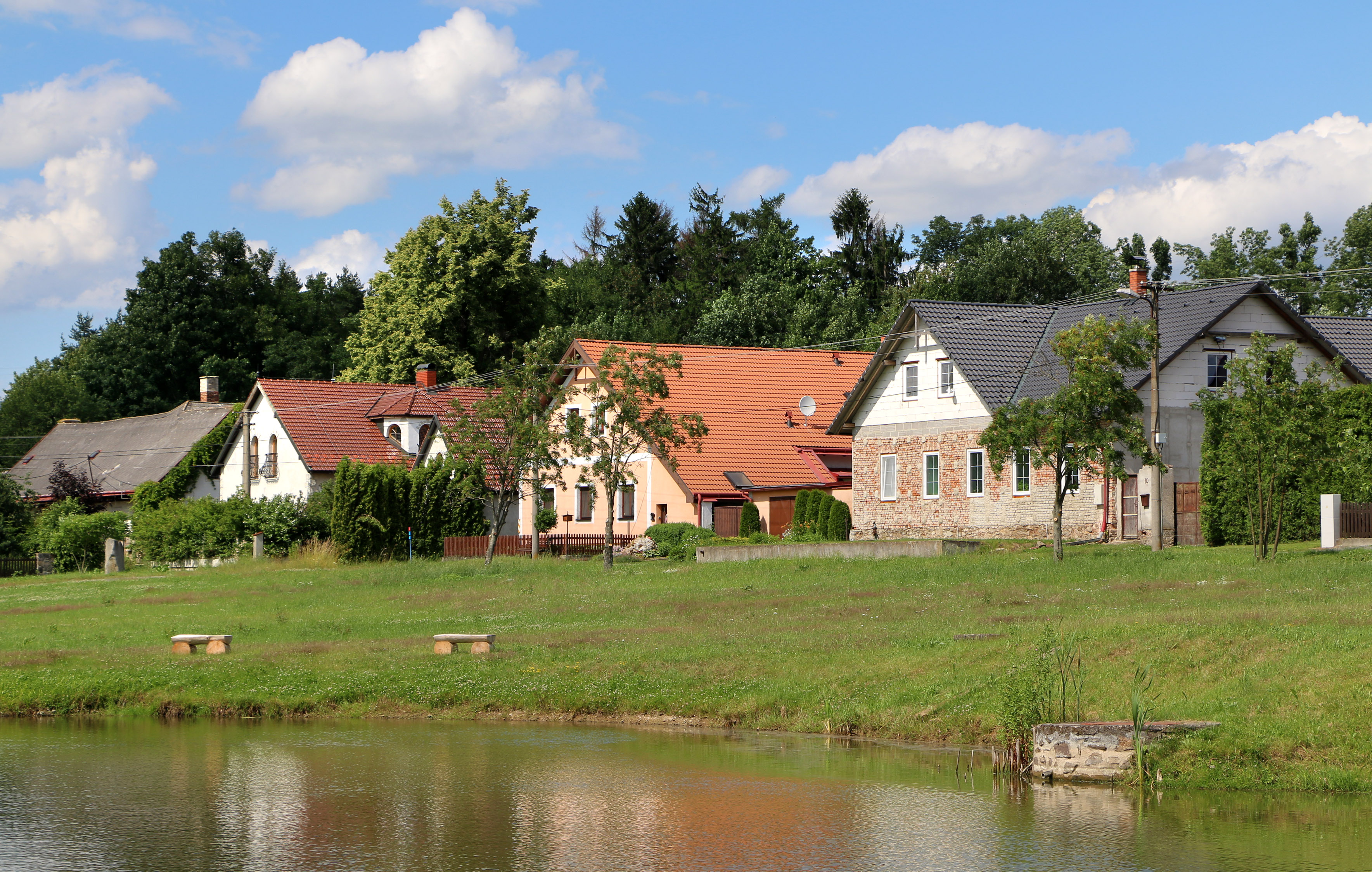 East part of common in Rosice, part of Cerekvička-Rosice village, Czech Republic.